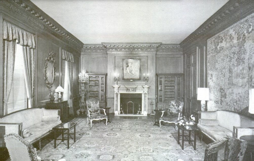 Looking northwest at the library in the Patterson Mansion at 15 Dupont Circle in Washington, D.C., in the United States.